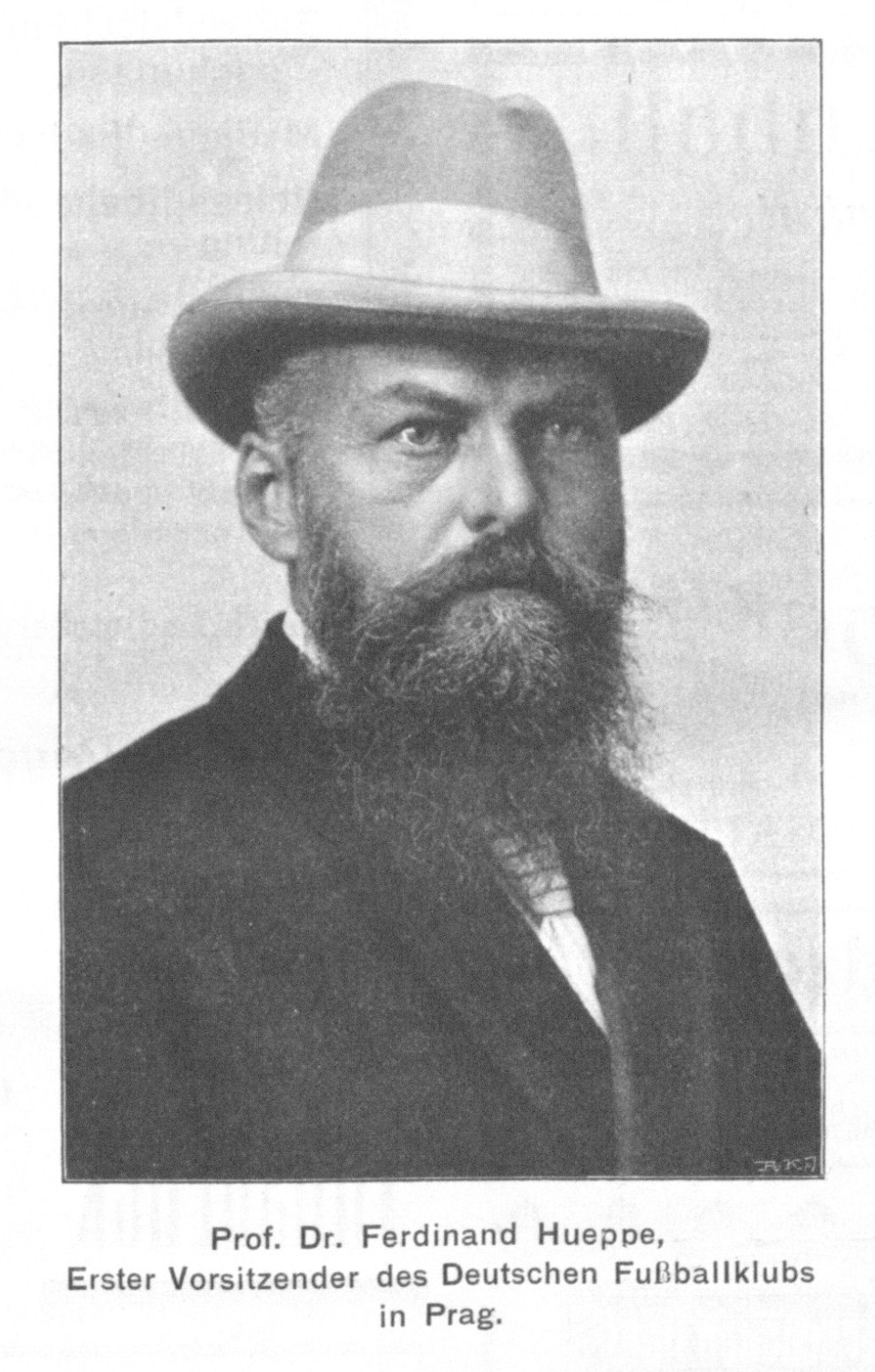 Portrait of Ferdinand Hueppe (1852-1938), German bacteriologist and the first chairman of a German football club (DFC) in Prague, Bohemia and also the first chairman of the German Football Confederation (DFB).